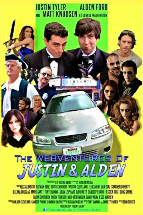 This is a promotional poster image for the web tv series, the Webventures of Justin and Alden (2010)